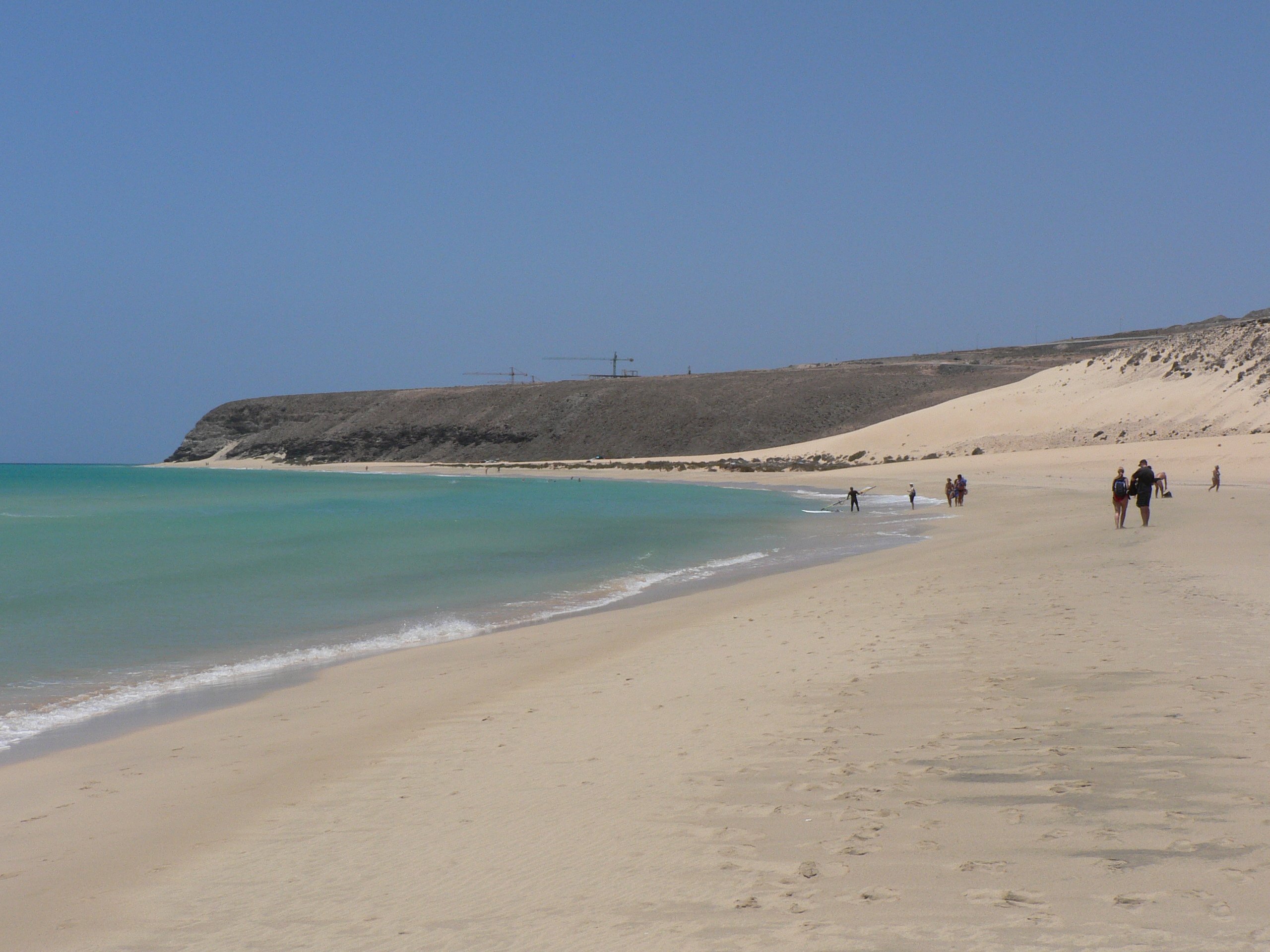 A view of Sotavento Beach in the Canary Islands.